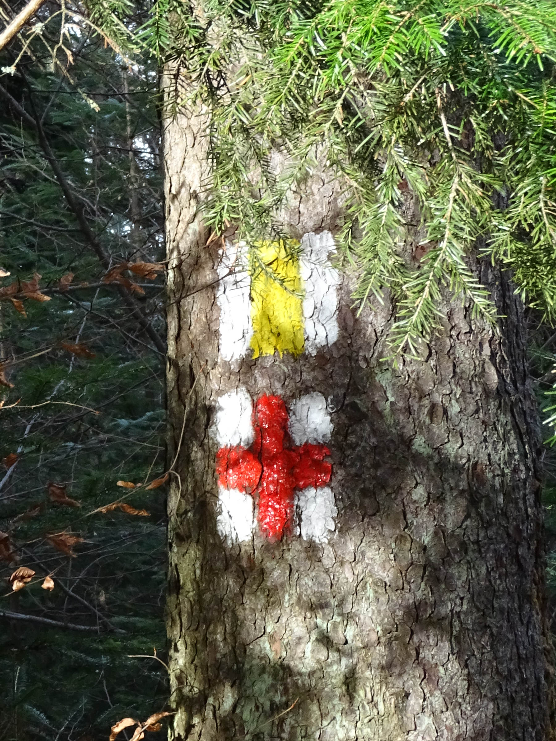 Hiking trail markings in Romania